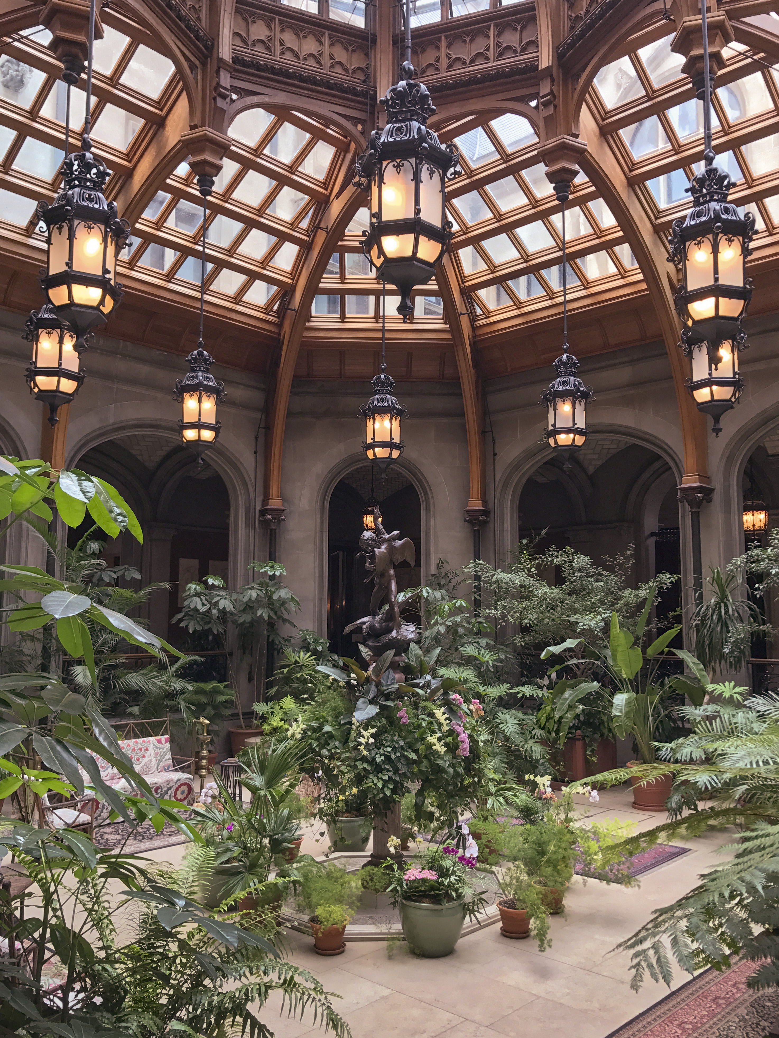 Winter Garden in Biltmore House, Asheville NC